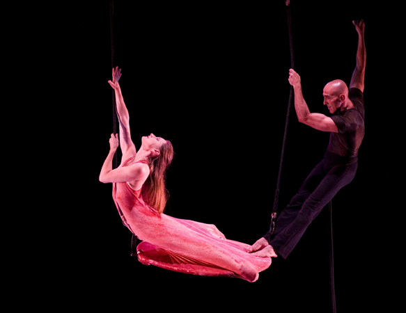 aerial dance, aerial fabric, the woman in the moon, fred deb